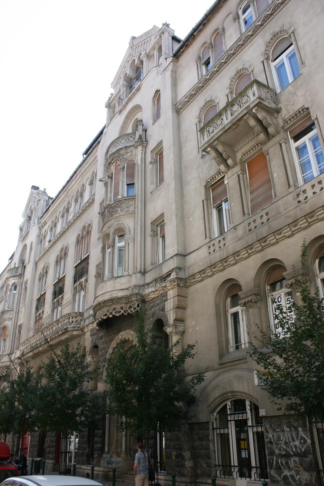 Tekelijanum